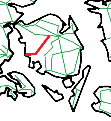 Map of railways on Funen in Denmark with the state railway Assensbanen in red.